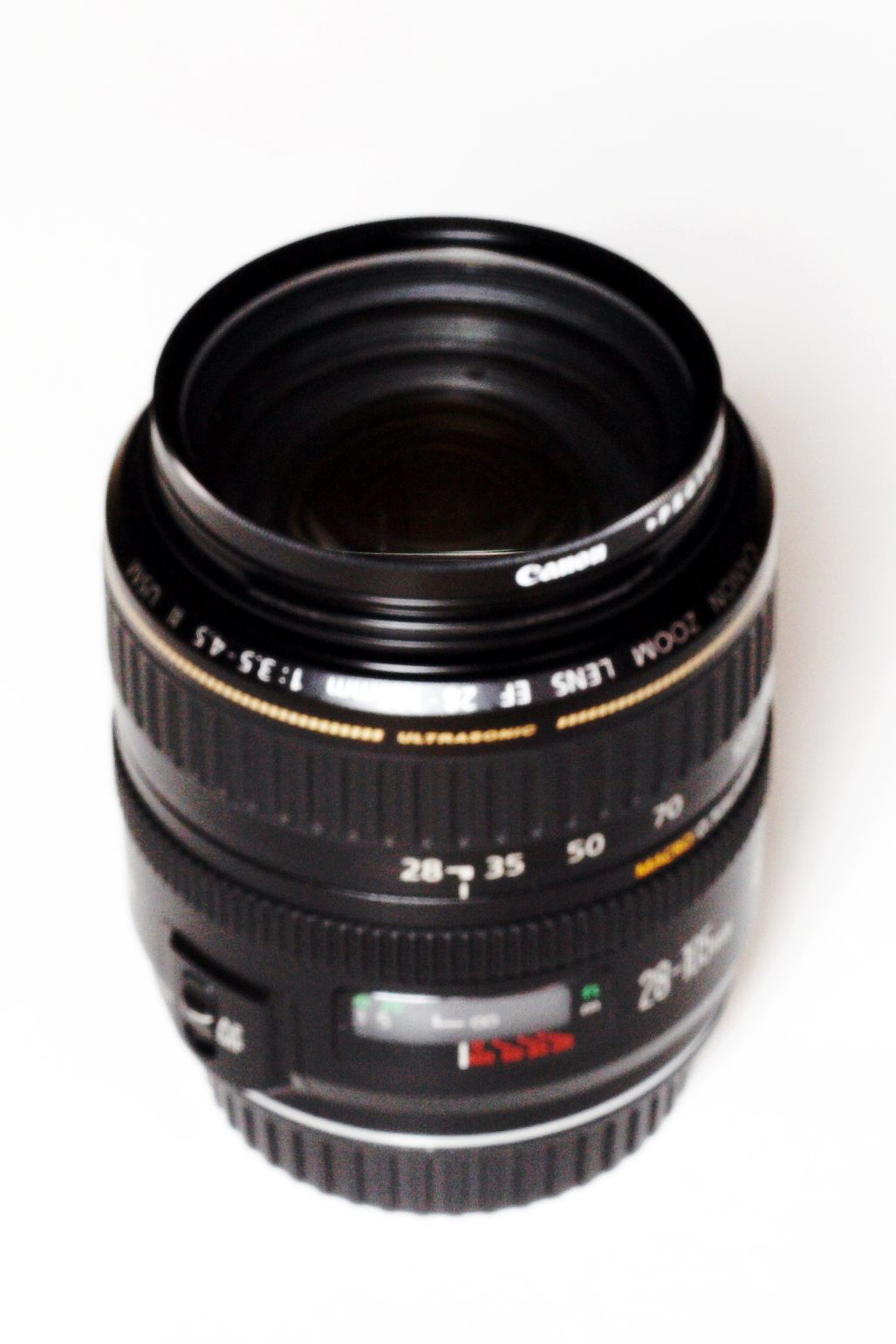 Canon EF28-105mmF3.5-4.5 II USM